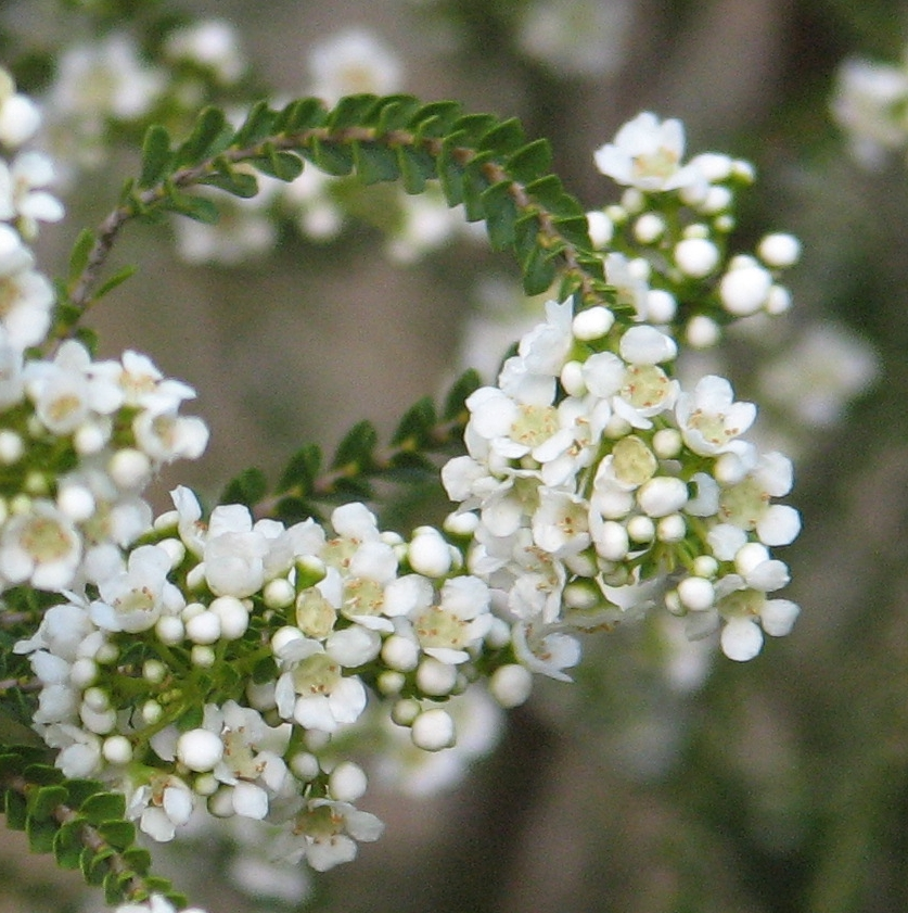 Scholtzia_oligandra (cultivated, labelled) Maranoa Gardens, Balwyn, Victoria, Australia